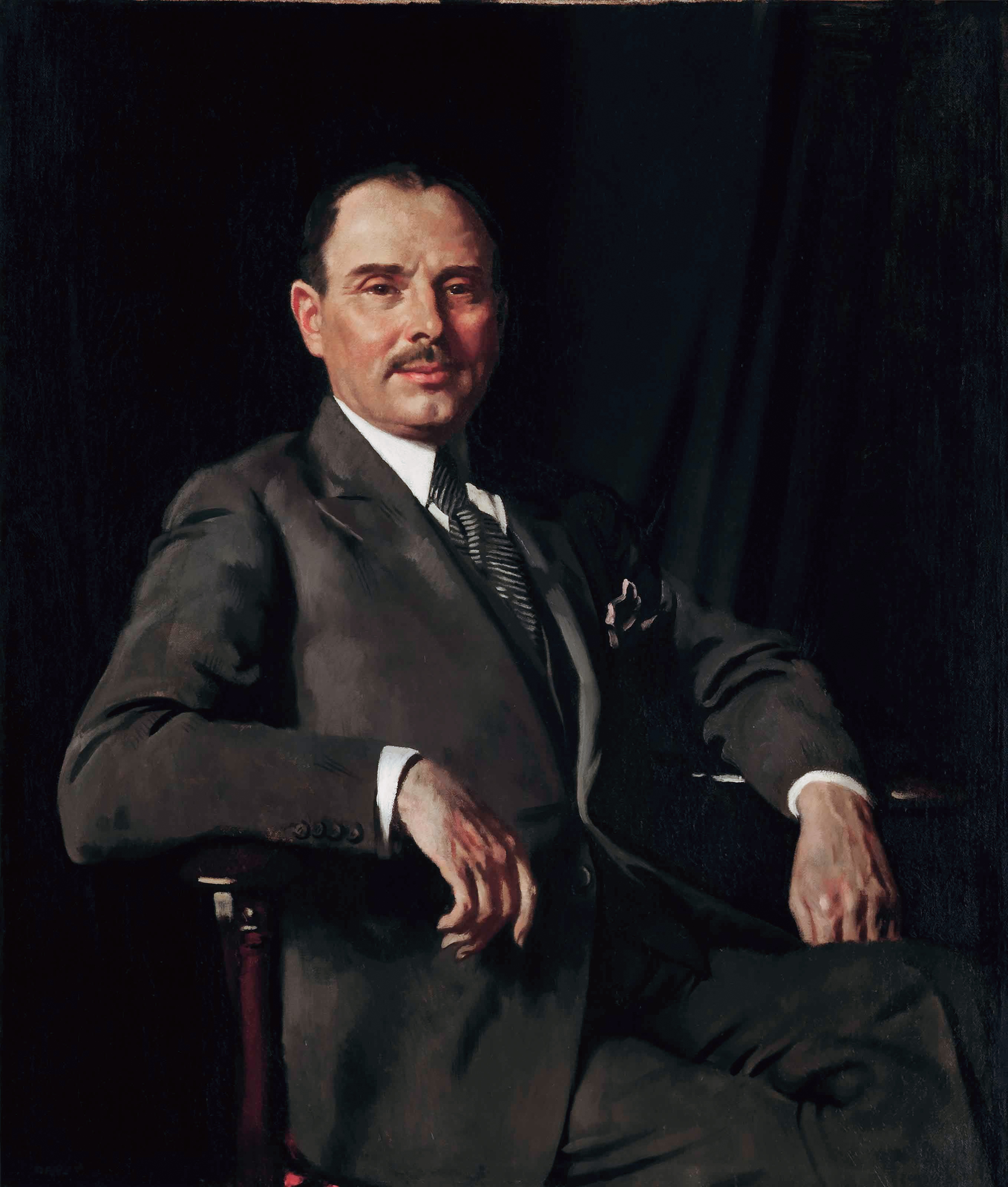 Louis Bernhard Baron (1876-1934) oil on canvas 102.3 x 87 cm signed b.l.: ORPEN 1926